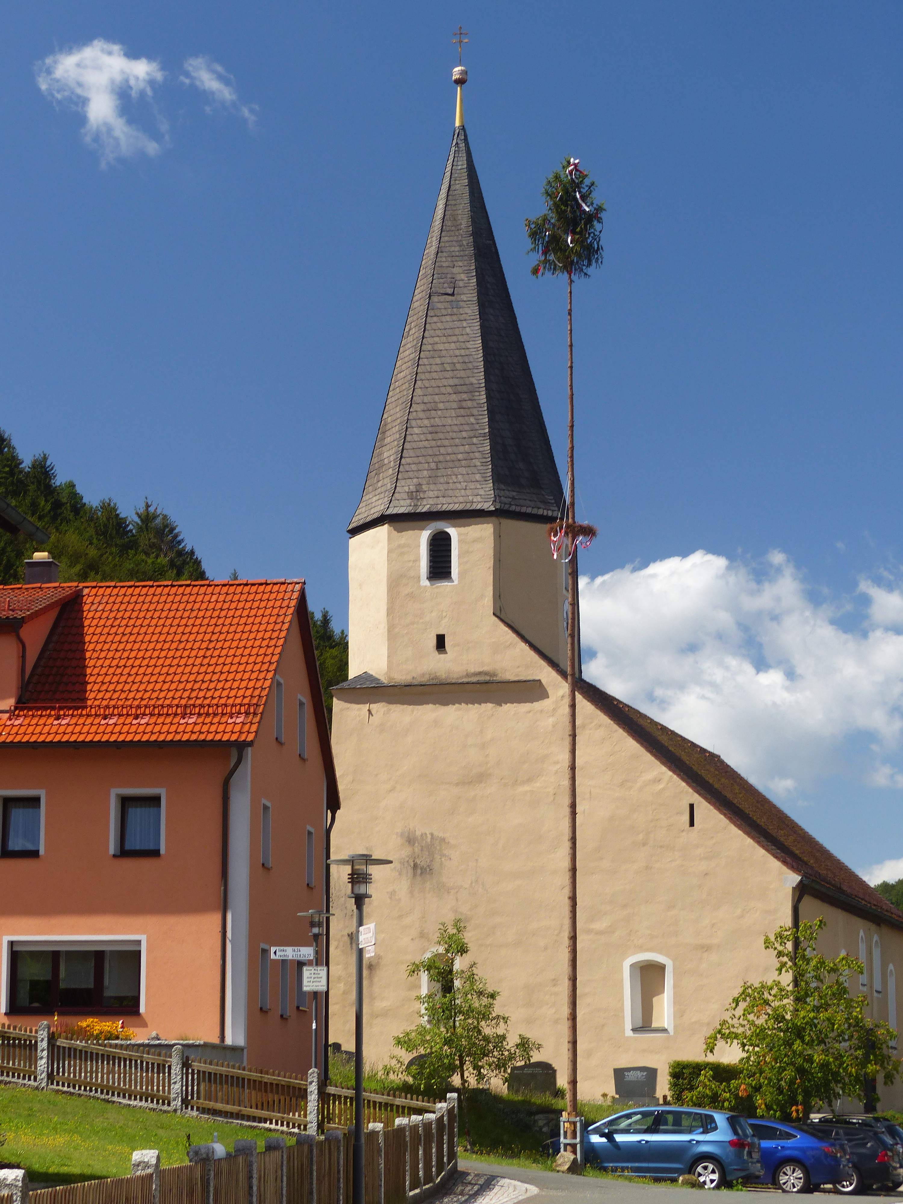 The church of the church village Untertrubach, a district of the municipality of Obertrubach.